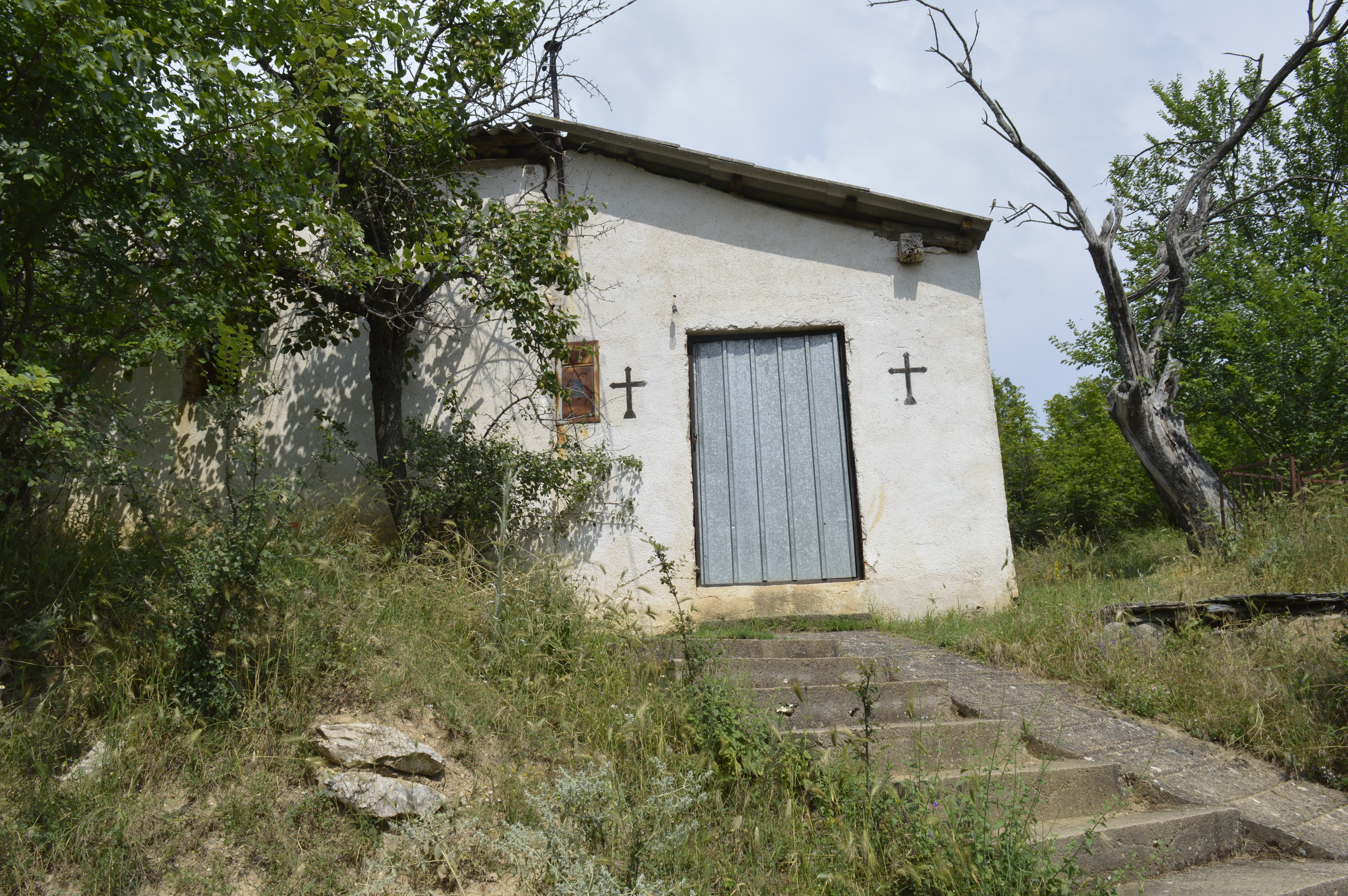 View of the St. Nicholas Church in the village Vladilovci